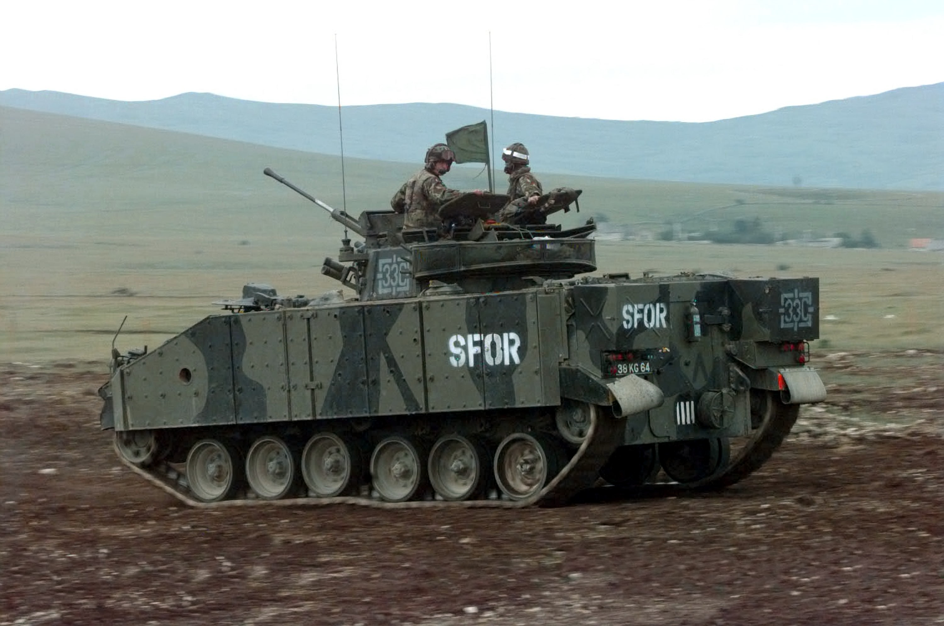 DFSD9901344 970619F4669L519 Stabilization Force (SFOR) British Warrior armored fighting vehicles move into position during the joint, British and American forces, live fire exercise.